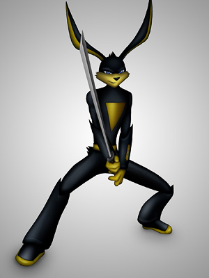 Digital fan art piece of Loonatics Unleashed animated series.